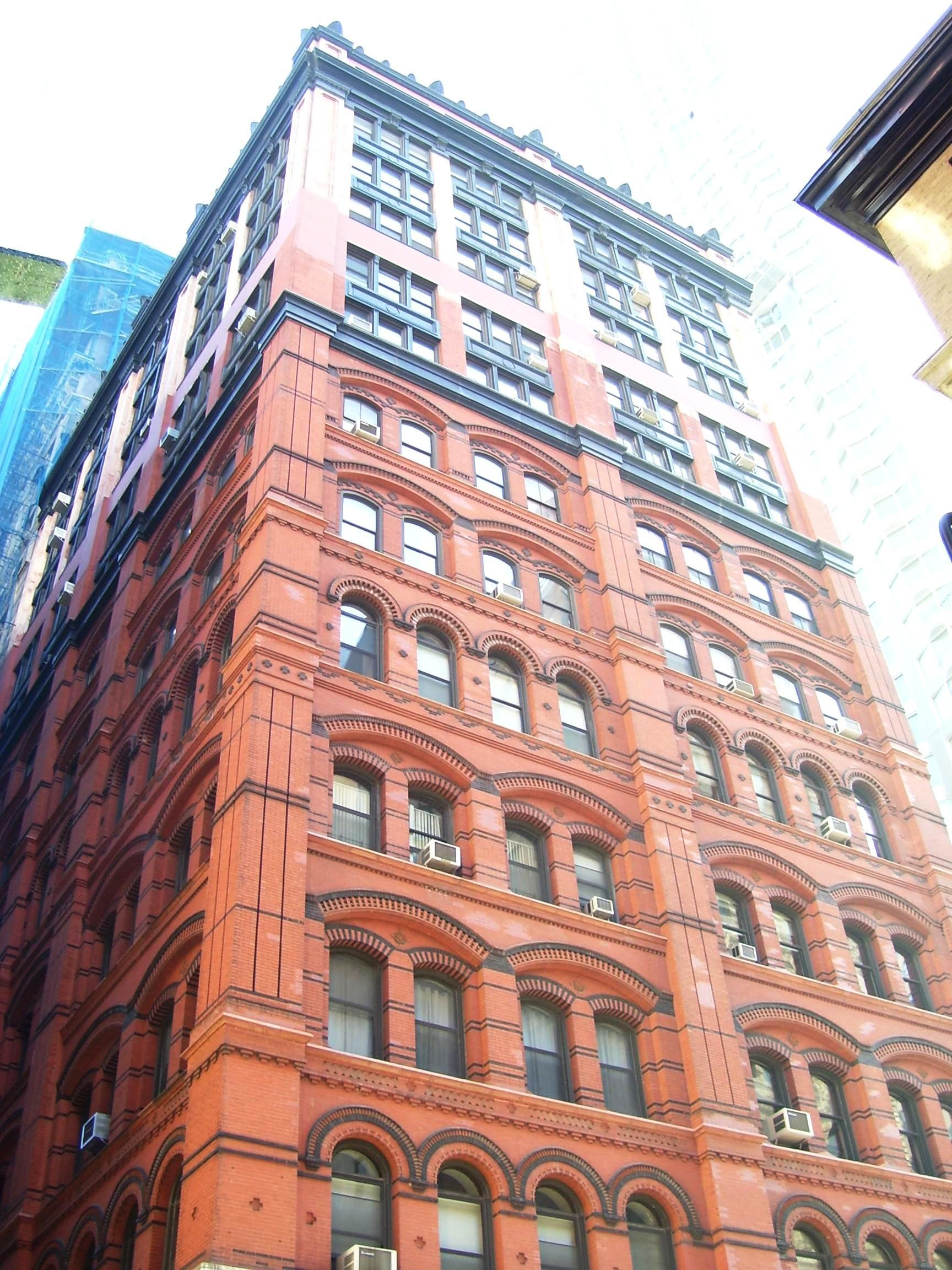 The Morse Building, also known as the Nassau-Beekman Building, at 138-42 Nassau Street on the corner of Beekman Street in the Financial District of Manhattan, New York City, was built in 1878-80 for two nephews of Samuel F.B. Morse, and was designed by Silliman & Farnsworth in a combination of Victorian Gothic, Rundbogenstil and neo-Grec styles, visible on the middle floors. It was significantly remodeled in 1901-02 by architects Bannister & Schell in the neo-Classical style, which can be seen on the upper floors. The building, which was one of the first tall fireproof buildings in New York City, became apartments in 1980 and was designated a NYC landmark in 2006. (Source: Guide to NYC Landmarks (4th ed.))